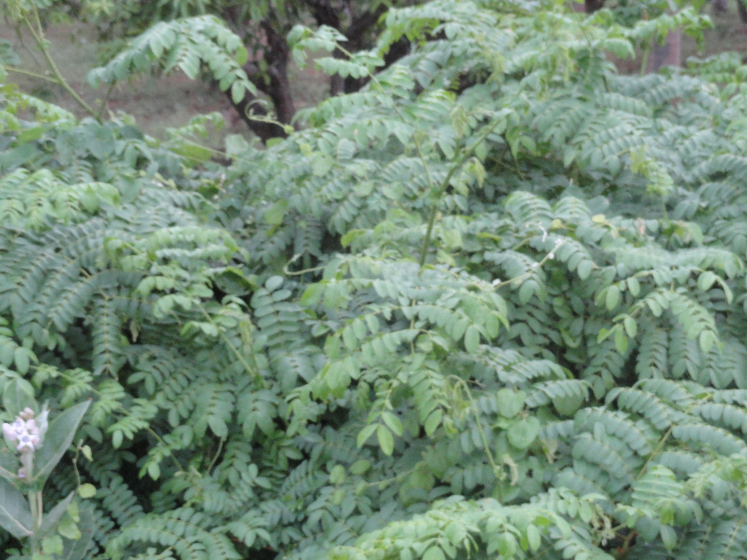 గచ్చపొద.... కె.ఆర్. పల్లి లో